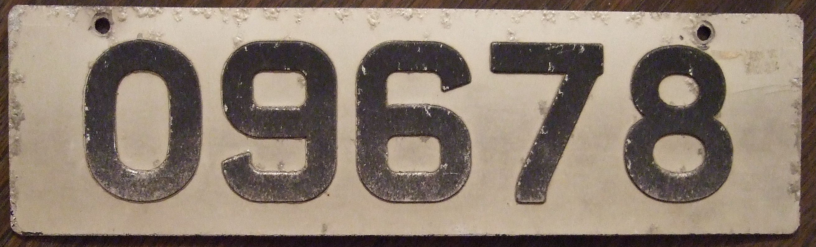 Black on reflective white Barmuda plate.